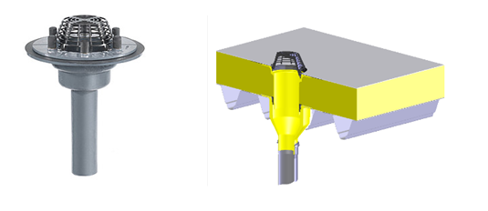 Stogo įlajos